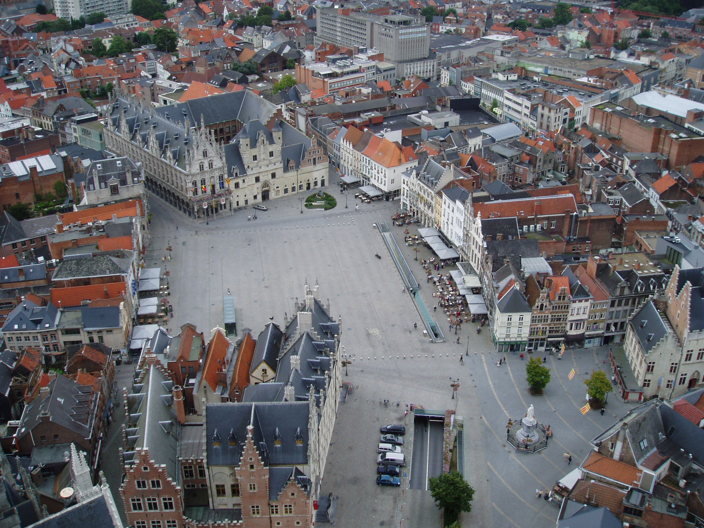 Picture of Mechelen (Belgium) town square. Picture taken from cathedral Sint-Rombouts.